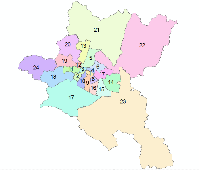 Scheme of districts in Sofia, according to the numbering and zoning of Sofia Municipality.